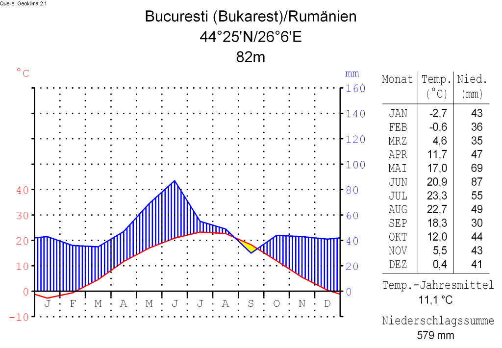 Climate chart in the format by Walter and Lieth, metric, °Celsisus and millimeters, made with Geoklima 2.1